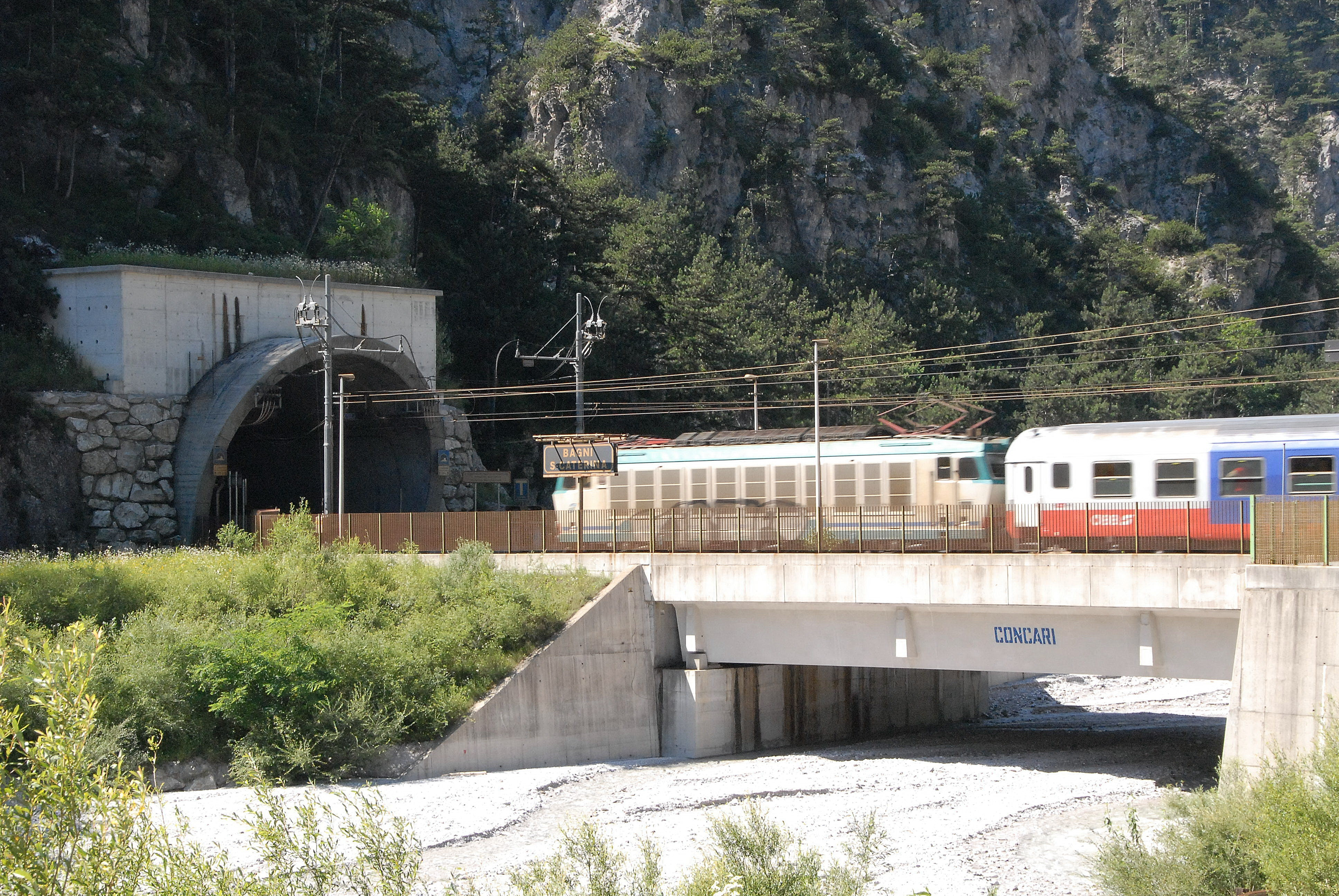 New railway line ‚Pontebbana‘ near Santa Caterina in the community of Malborghetto in the Val Canale, Friuli-Giulia Venezia, Italy